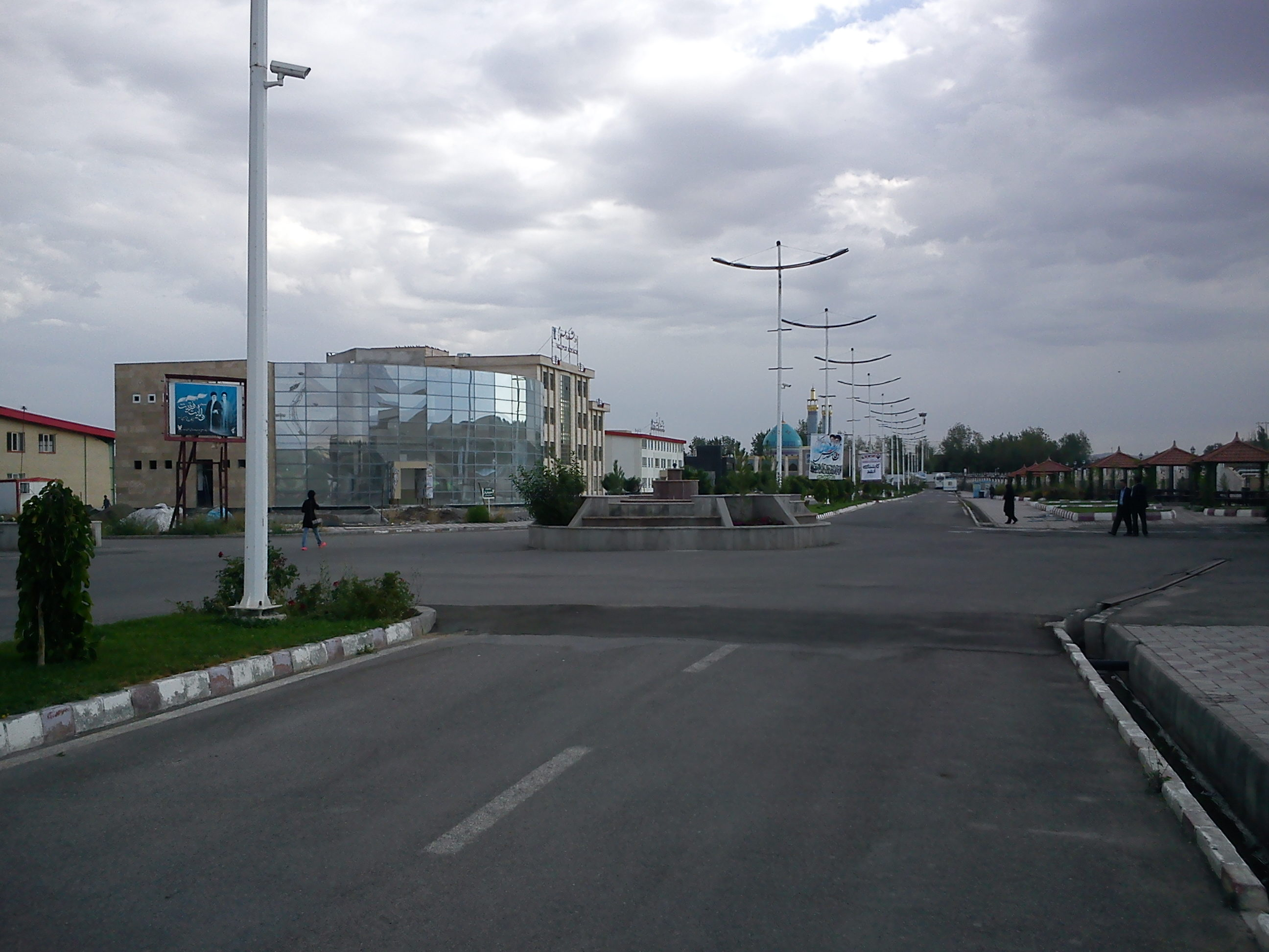 Azad University of Ahar